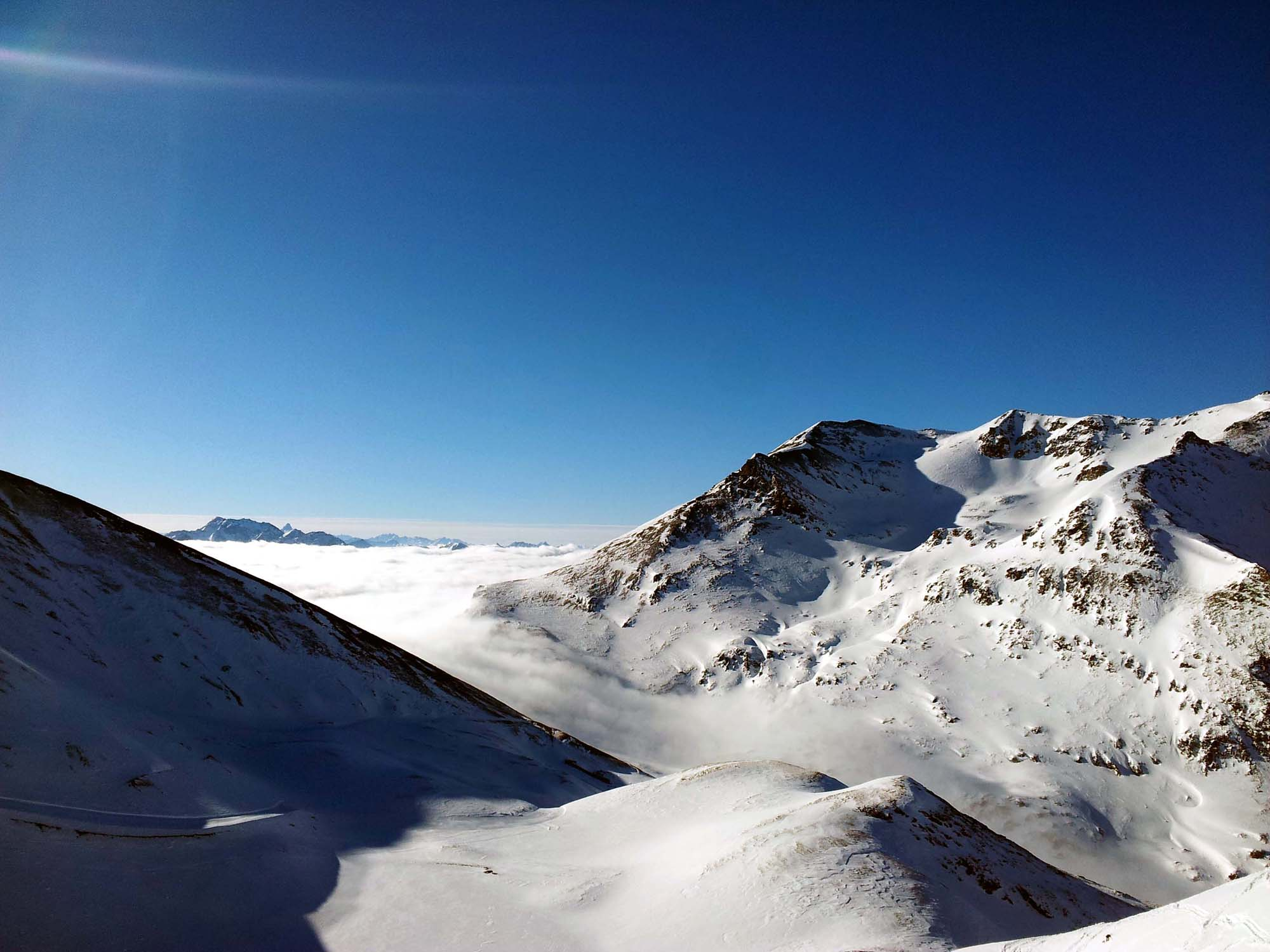 Le col du Fréjus depuis Punta Bagna.